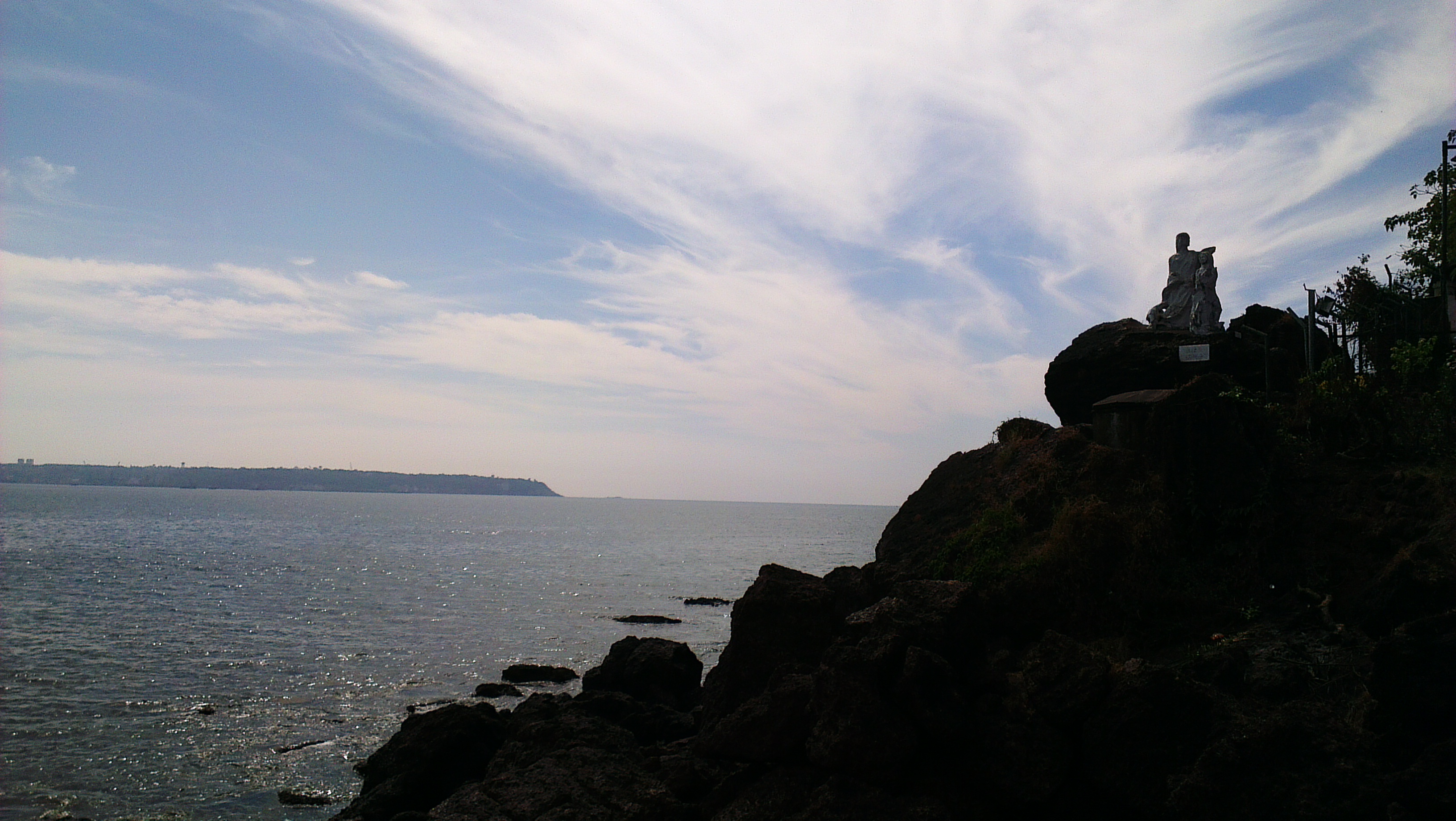 View of the rocks by the sea at Dona Paula,Goa